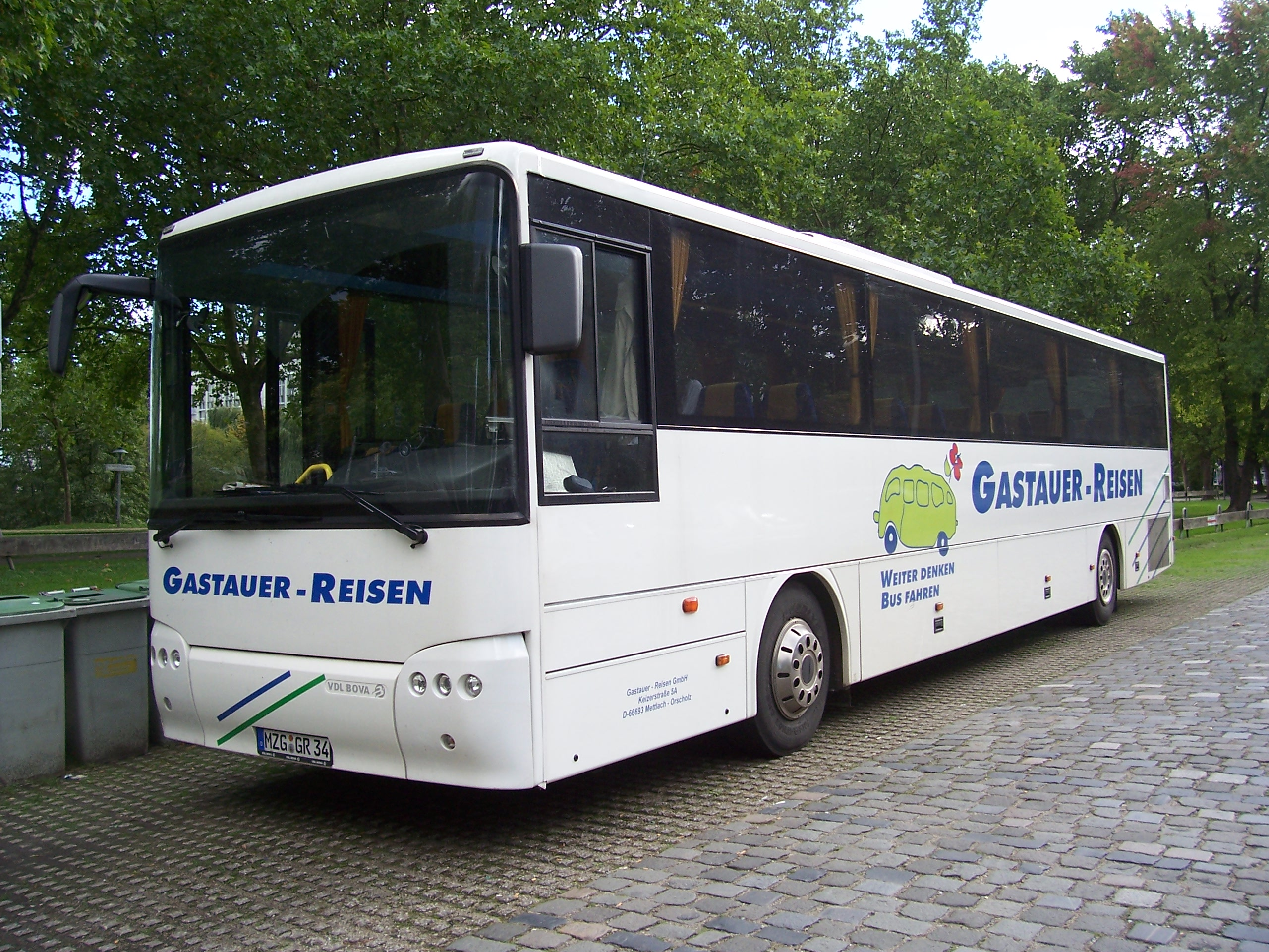 VDL Bova Lexio bus (reg. MZG-GR 34) in Mannheim, Germany.